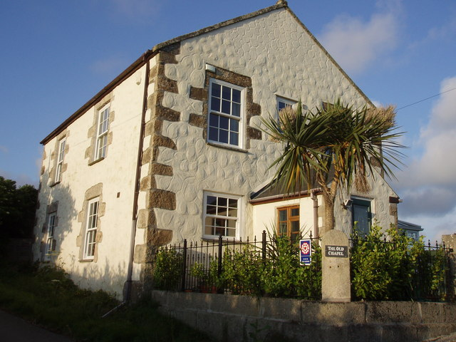 Old chapel at Trescowe. Now a holiday cottage.